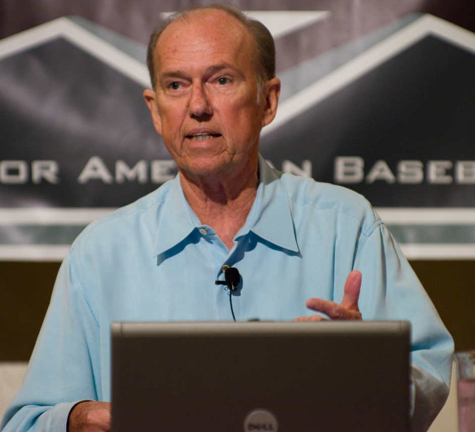 Sportscaster George Michael at a SABR event in 2009. Photo courtesy of The SABR Office, via Flickr. This file has been extracted from another file: George Michael 2009.jpg